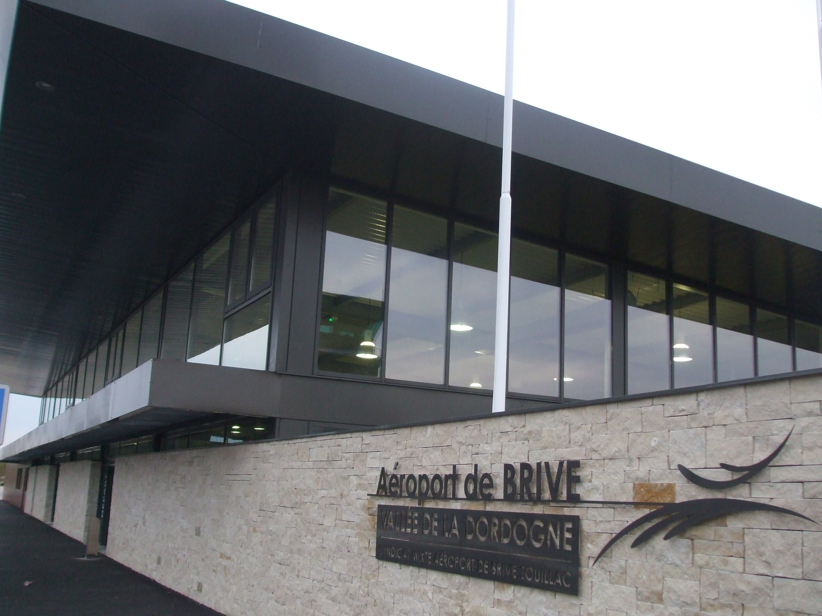 Brive Vallée de la Dordogne airport terminal, France